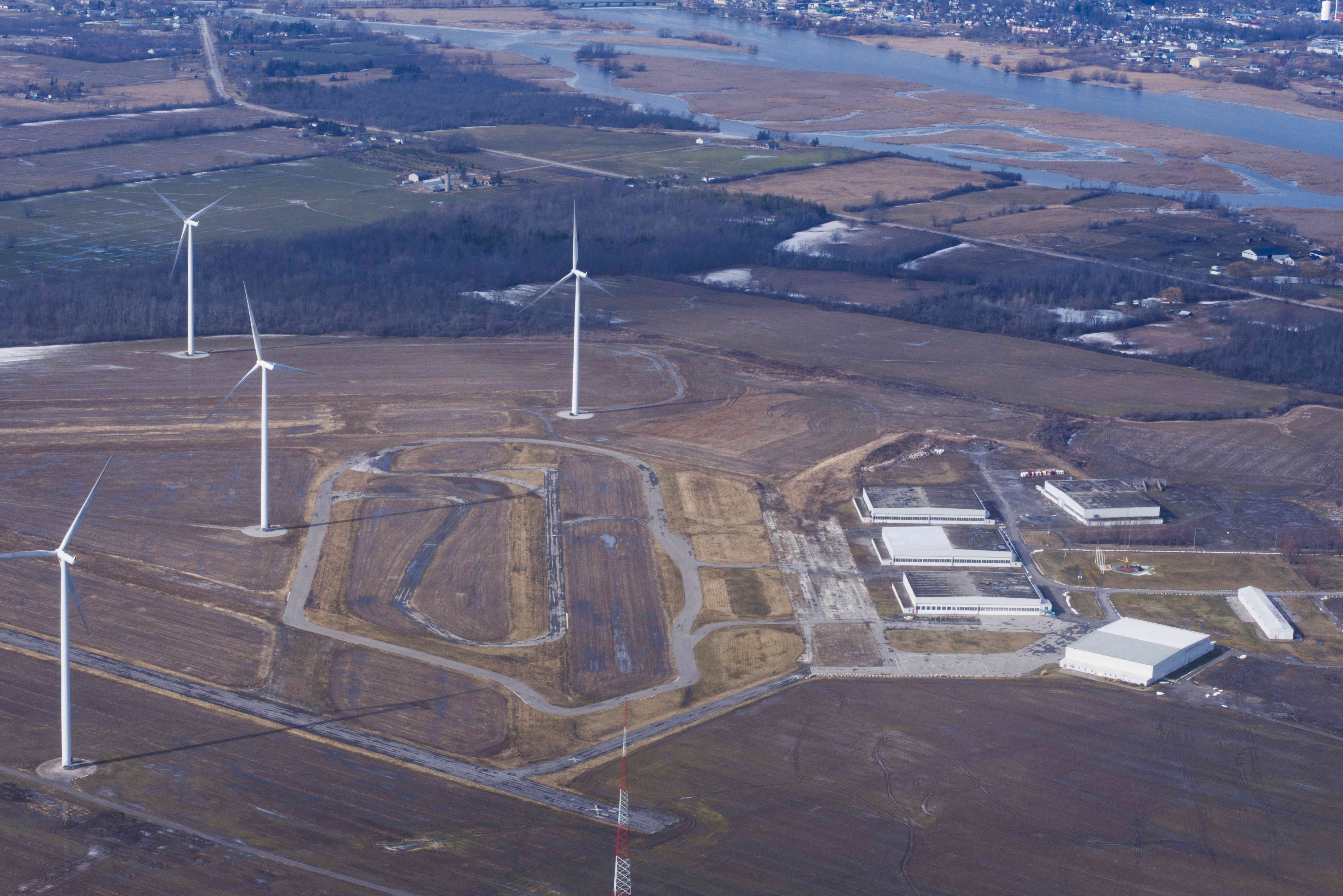 This is the site of RCAF Dunnville, Royal Canadian Air Force No. 6 Service Flying Training School, built in 1940-41 to train pilots under the British Commonwealth Air Training Plan. After the war the site became known as "Dunnville Airport", and was a working airport until the windmills were installed in the 2010s. All runways are now closed, as indicated by the "X" on the former paved runway. The hangar at the bottom right is RCAF No. 6 Museum, and the yellow object in the circle between the hangars is the Harvard memorial. In the background is the Grand River and across the river is the town of Dunnville. The view is looking slightly west of north. Photo taken from a Cessna 152 aircraft flown by J. S. Bond.